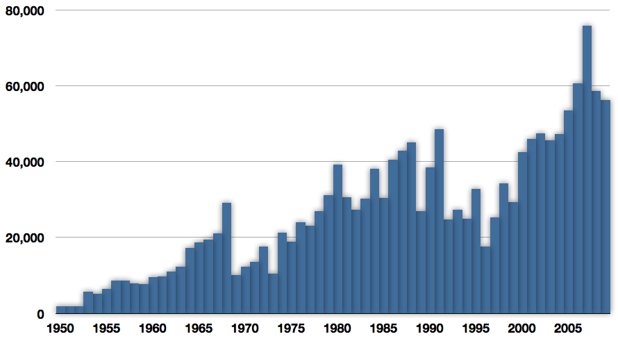 Fisheries recorded capture of Scomberomorus niphonius from 1950 to 2009. Data source FAO fisheries